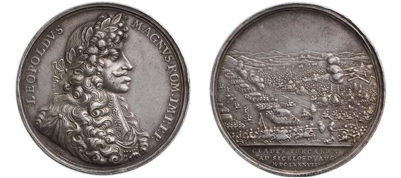 Leopold I, Battle of Siklos, 1687, Silver Medal, The House of Habsburg, 43 mm, 33,26g Obv: laureate bust of Leopold right, wearing the Order of the Golden Fleece, LEOPOLDUS MAGNUS ROM. IMP. P. P.; Rev: panoramic view of the battlefield, with Ottoman troops amassed to the right and imperial troops in ordered ranks on the left, CLADES TURCARUM AD SECKLOS D. 11/2 AUG. M.DC.LXXXVIII in exergue, Medalist: Georg Hautsch (1664–1736)